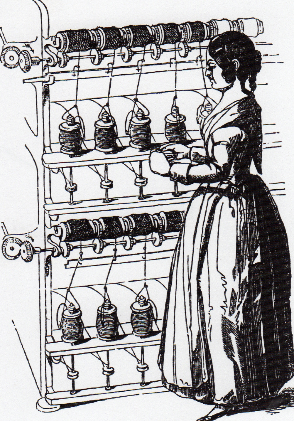 Silk throwing:- Graham Stevenson published on his blog the illustrations from THE PENNY MAGAZINE, VOL XII No. 711. 1843. Pages 161 to 168. (SUPPLEMENT). Text available Bednall archive A simple silk throwing frame where the continuous filament from the top/horizontal bobbin is pulled onto the vertical/bottom bobbin, A flyer round the bottom bobbin inserts a twist